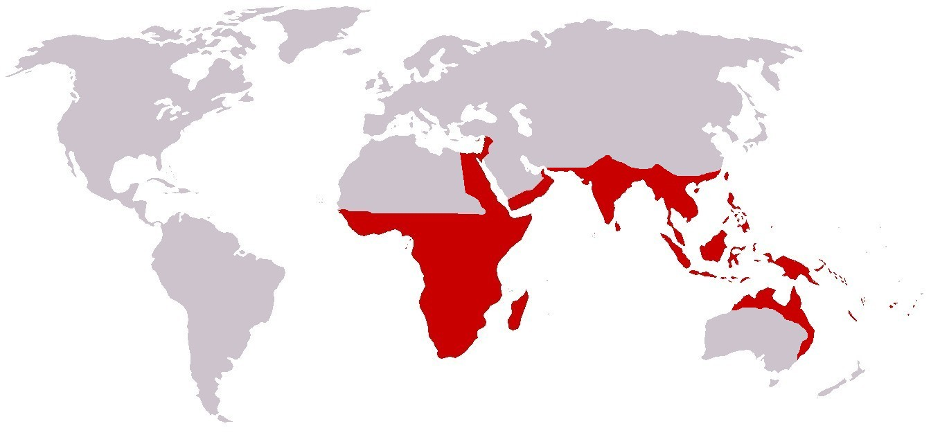 Pteropodidae distribution based on Image:Blank map of world no country borders.PNG and data from